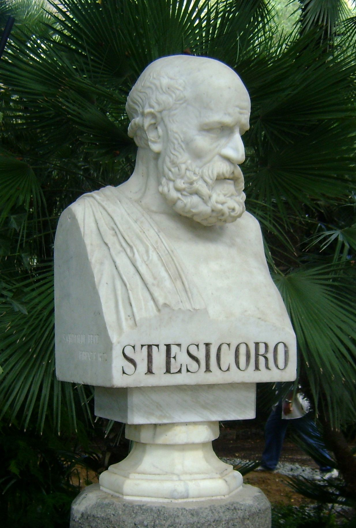 Stesichorus - Bellini Garden, Catania, Italy - September 2010